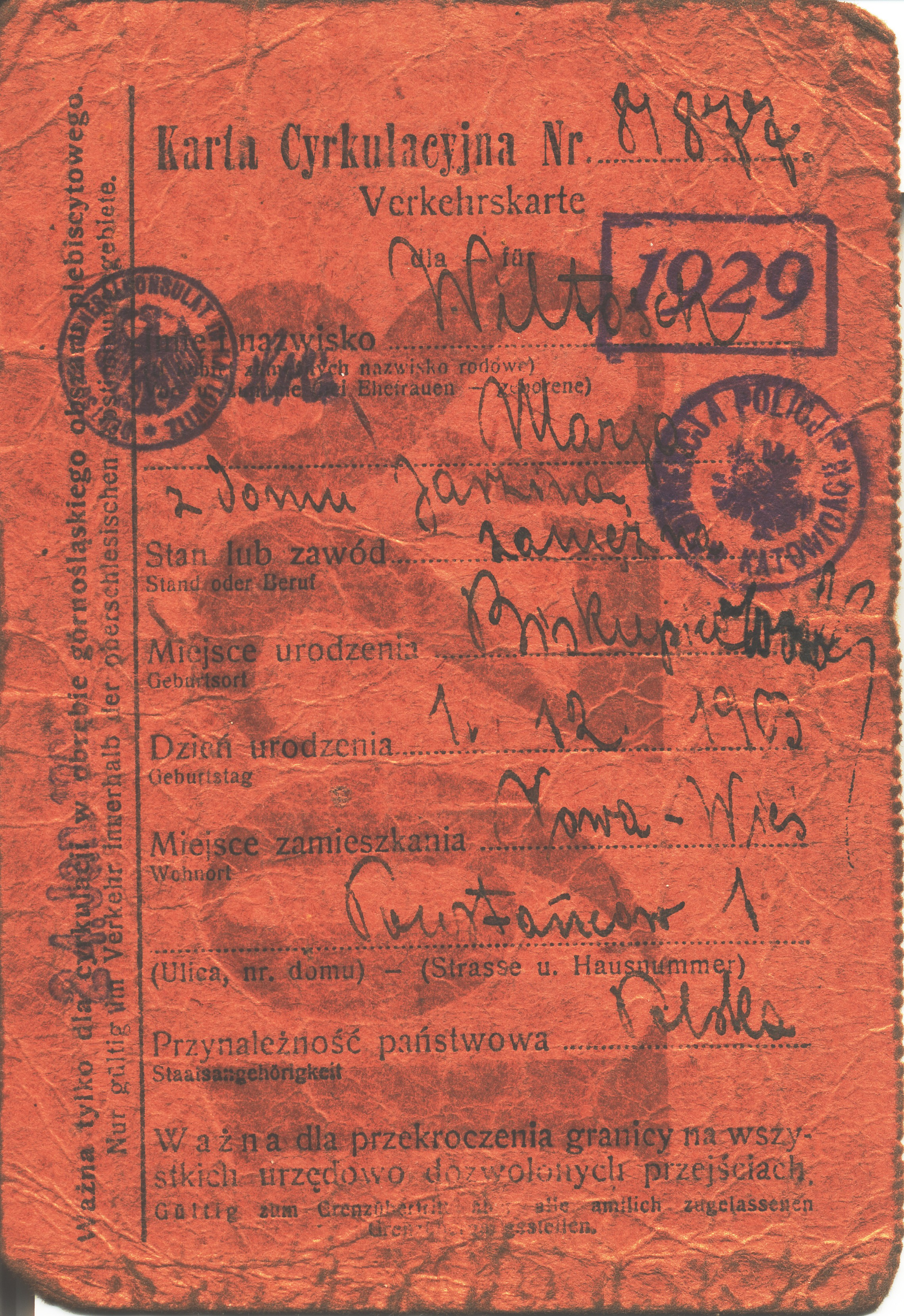 Circulate card, Upper Silesia 1928, 2 page